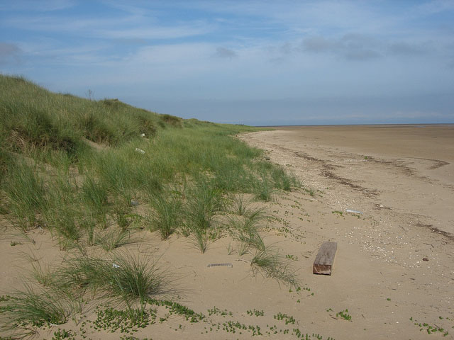 Dune front The dunes have previously been eroded and are now accreting through wind blown sand being trapped by Marram Grass, which grows as the sand builds up. There is the expected set of organic and plastic human waste on what is otherwise probably one of the least disturbed areas of coastline in Norfolk.